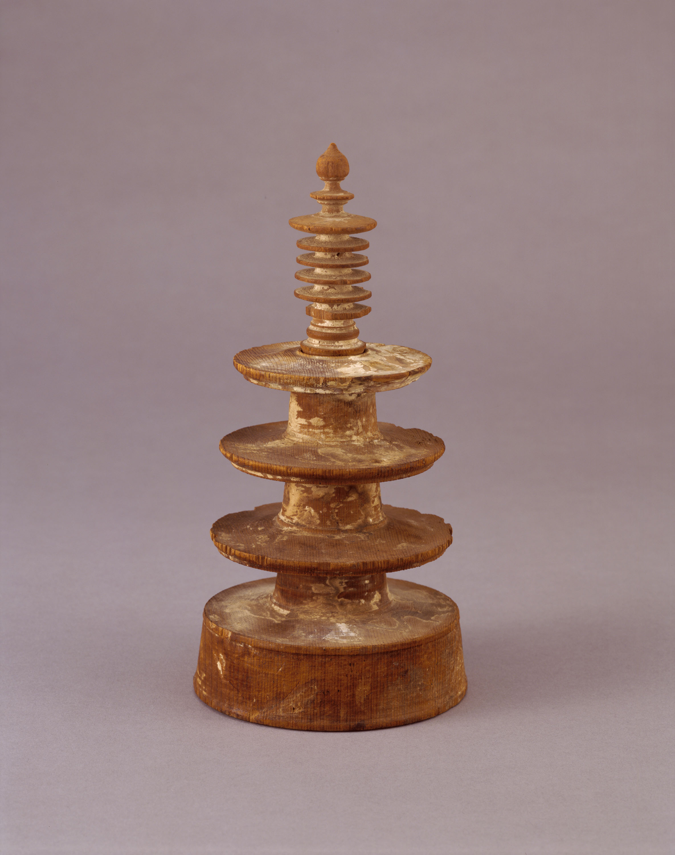 Japanese small wooden Pagota, including Buddhism Bible.